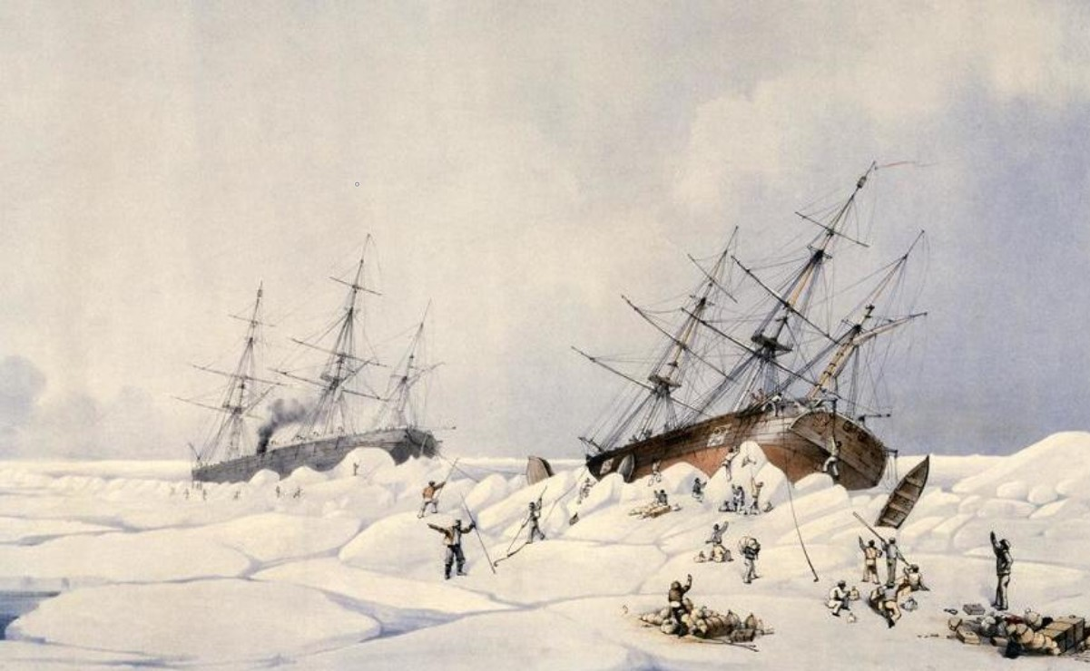 "HMS Phoenix and the Breadalbane at the moment when the latter was crushed and sunk. The field of ice, easing off from the Phoenix passed astern to the Breadalbane, and entering her bow, she filled and sank in less than 15 minutes, in 30 fathoms of water."